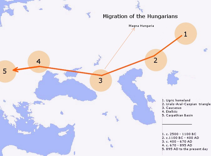 another possibility about migration of Hungarians (Source: Veres, Péter. „A magyar nép etnogenezise (ethnogenesis of the Hungarian people)”. História XXIX. (2007/4.). HU ISSN 01392409.